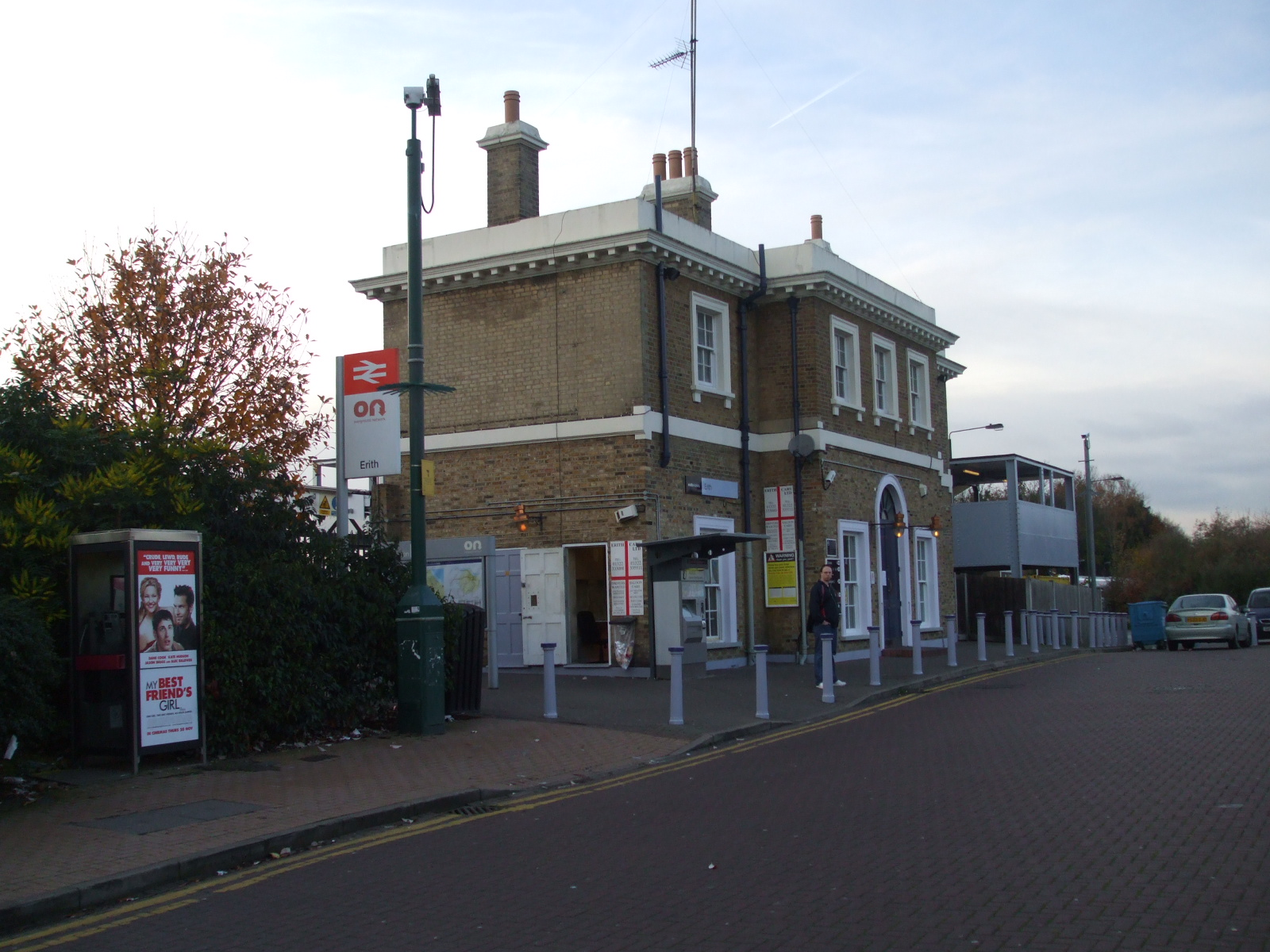 Erith station building